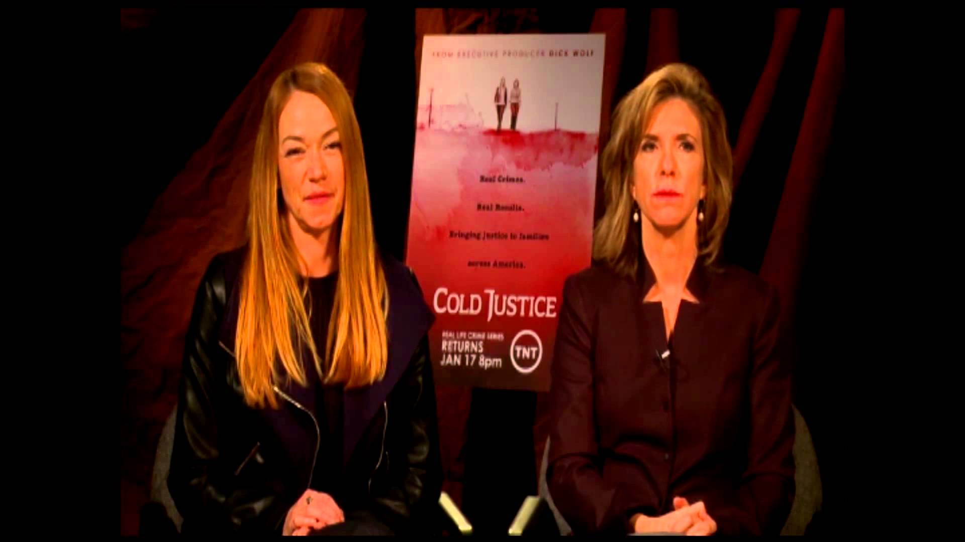 Former prosecutor Kelly Siegler (right) and former CSI Yolanda McClary (left), real life crime solvers on the TNT television channel Cold Justice program, interviewed for the Valder Beebe Show.